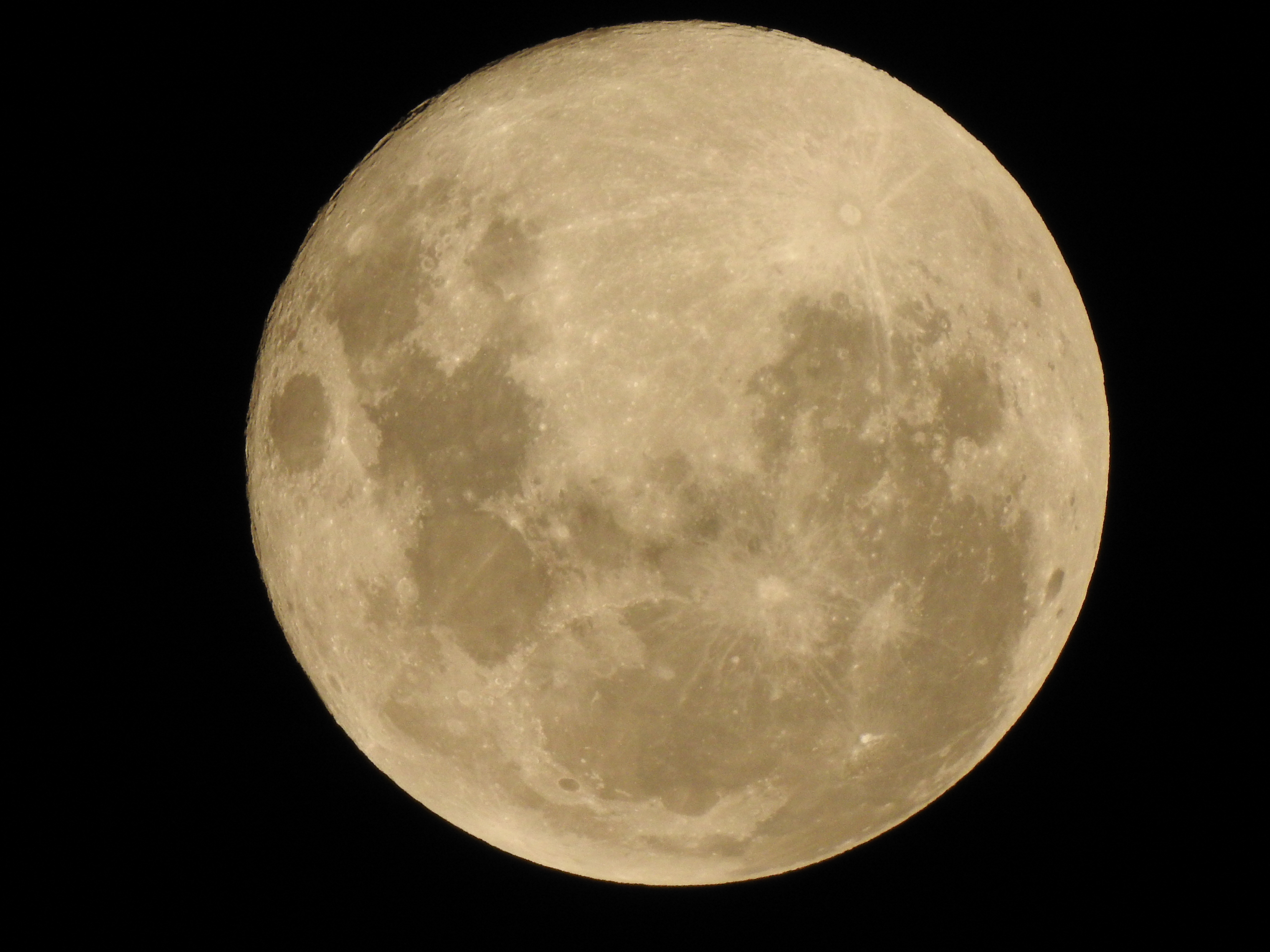 The Bangkok Supermoon